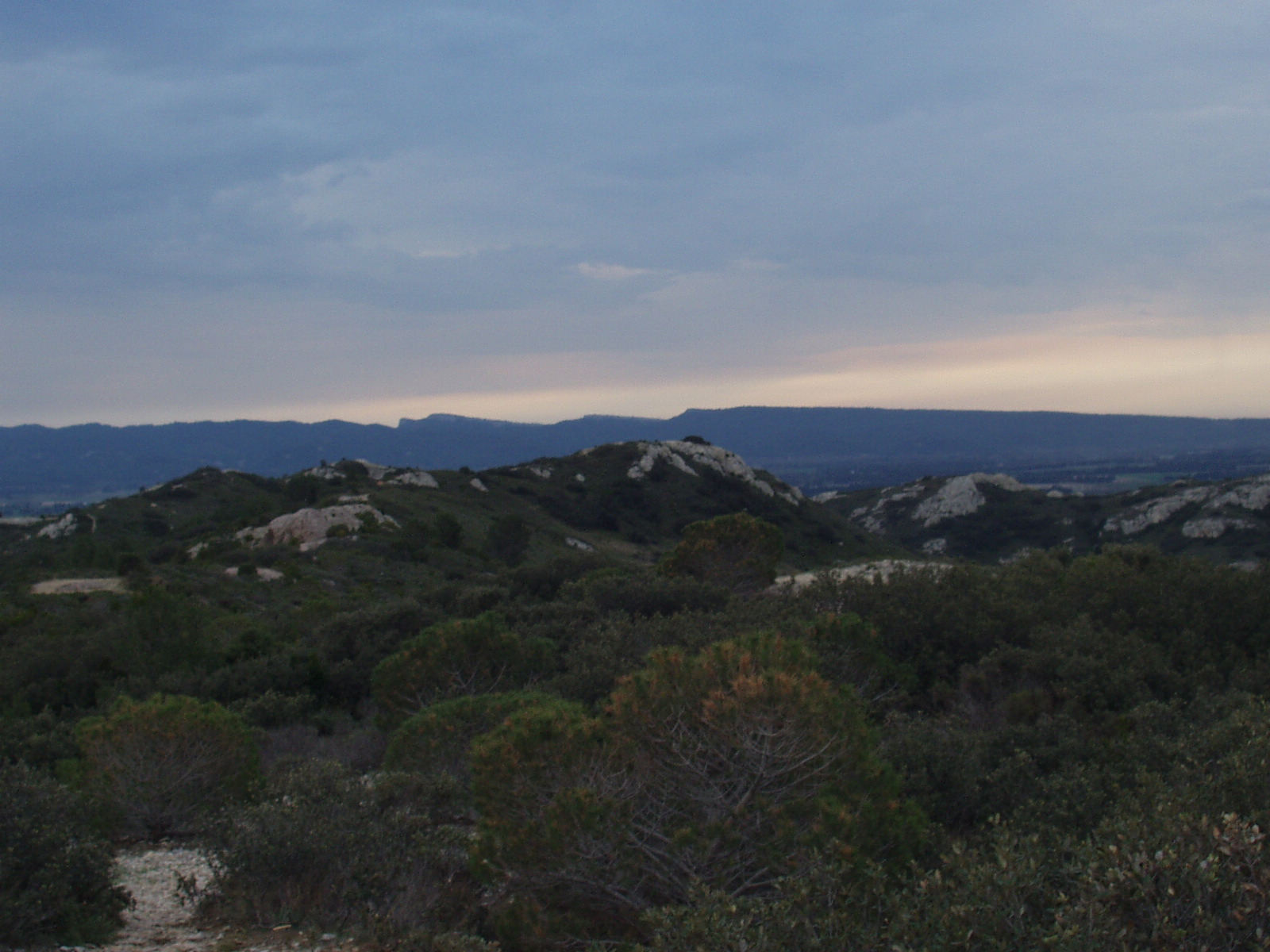 Description = Montagnette (Provence, Southern France) Author = Philipp Hertzog